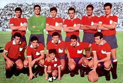 Independiente squad for the 1967 season